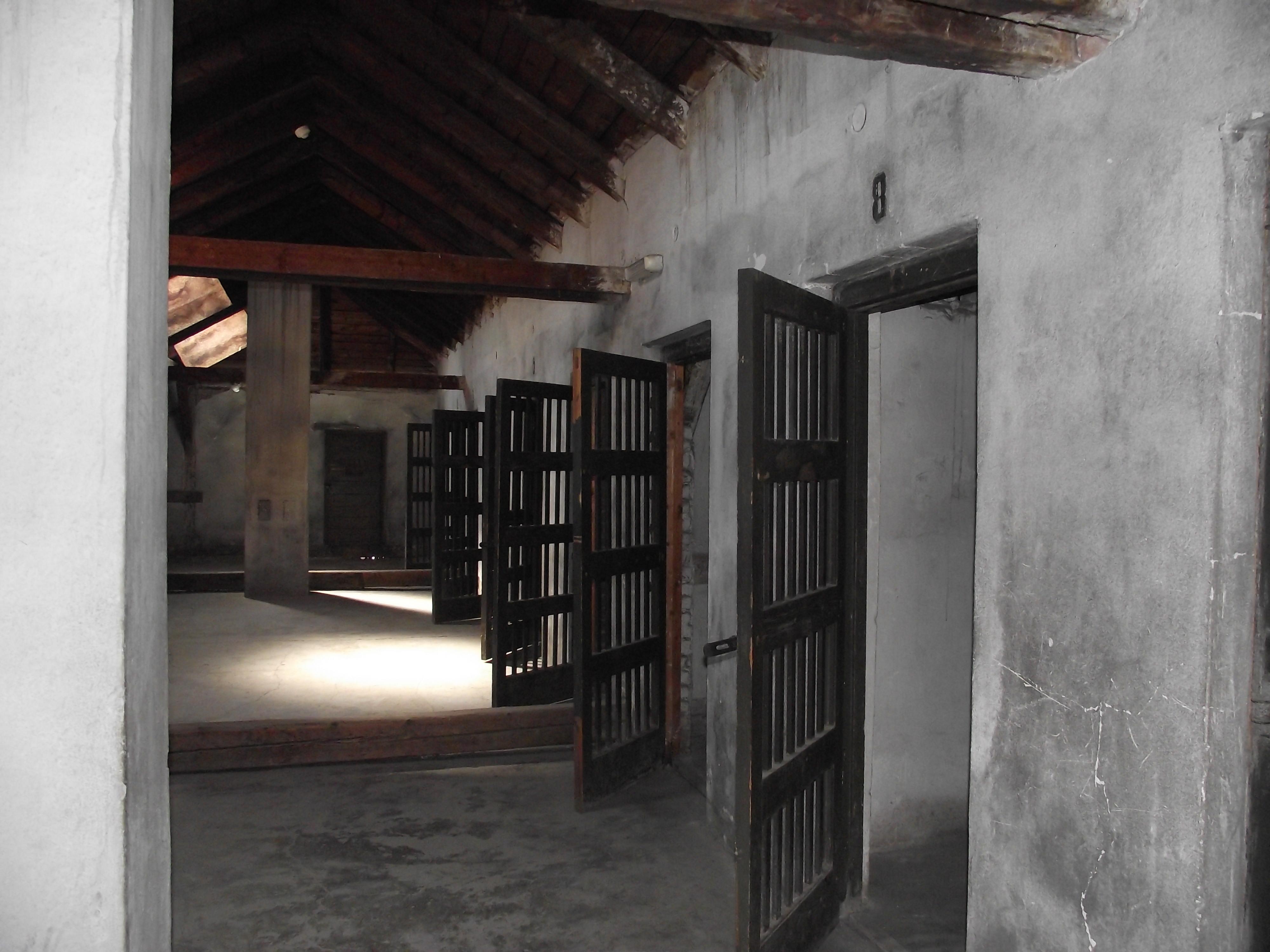 Crveni Krst concentration camp in Niš, Serbia